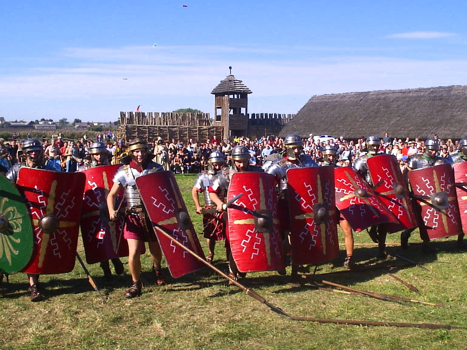 Roman soldiers attacking - Legio XIIII GMV, Biskupin, Poland